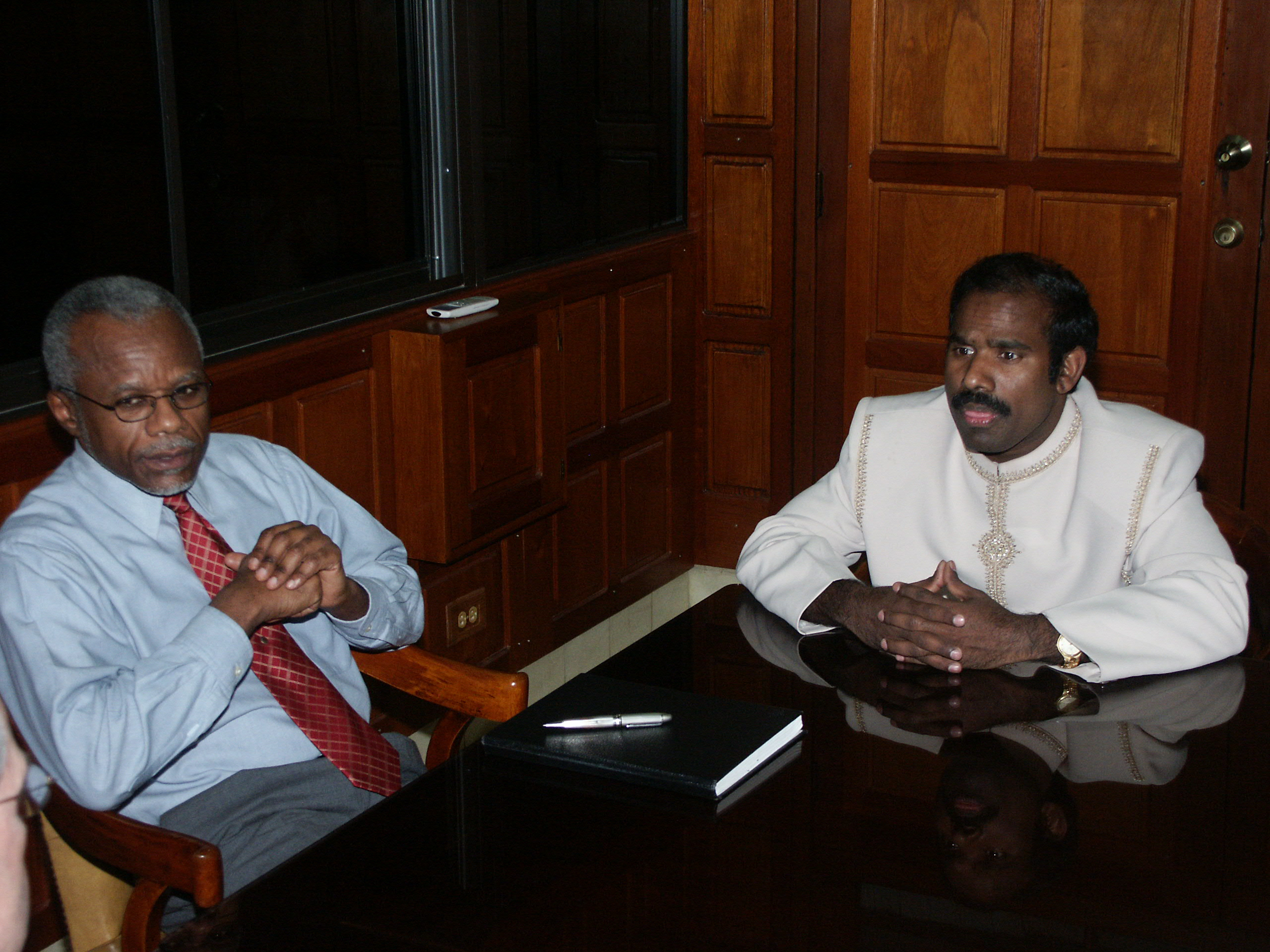 Kilari Anand Paul and Yvon Neptune on March 2004